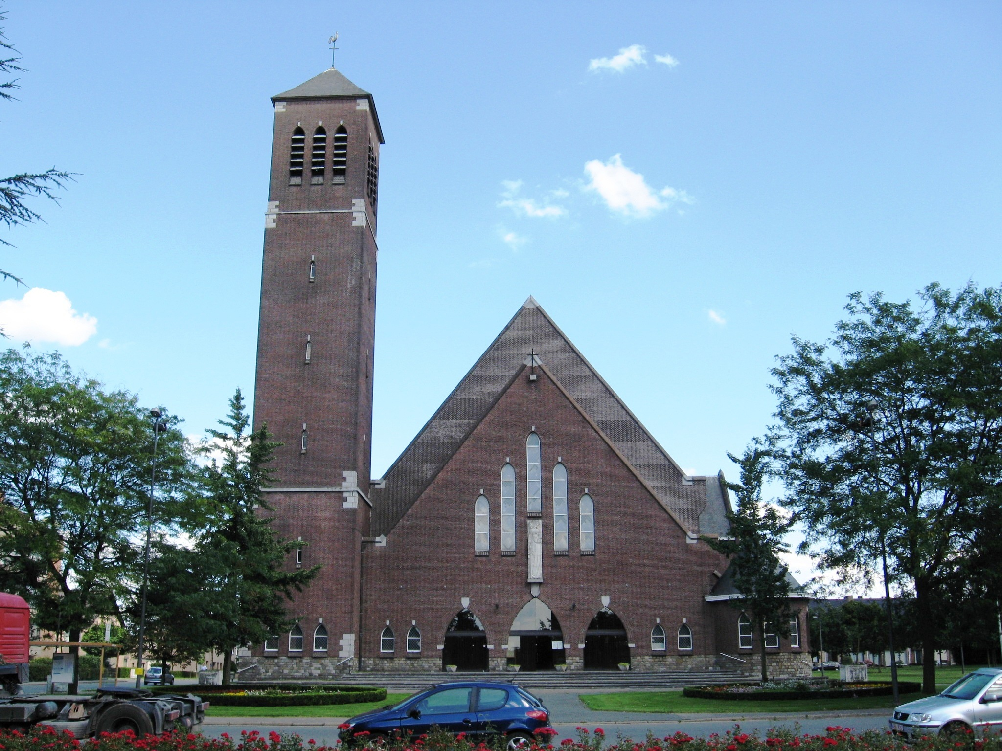 Church of Saint Catherine in Hasselt, Limburg, Belgium